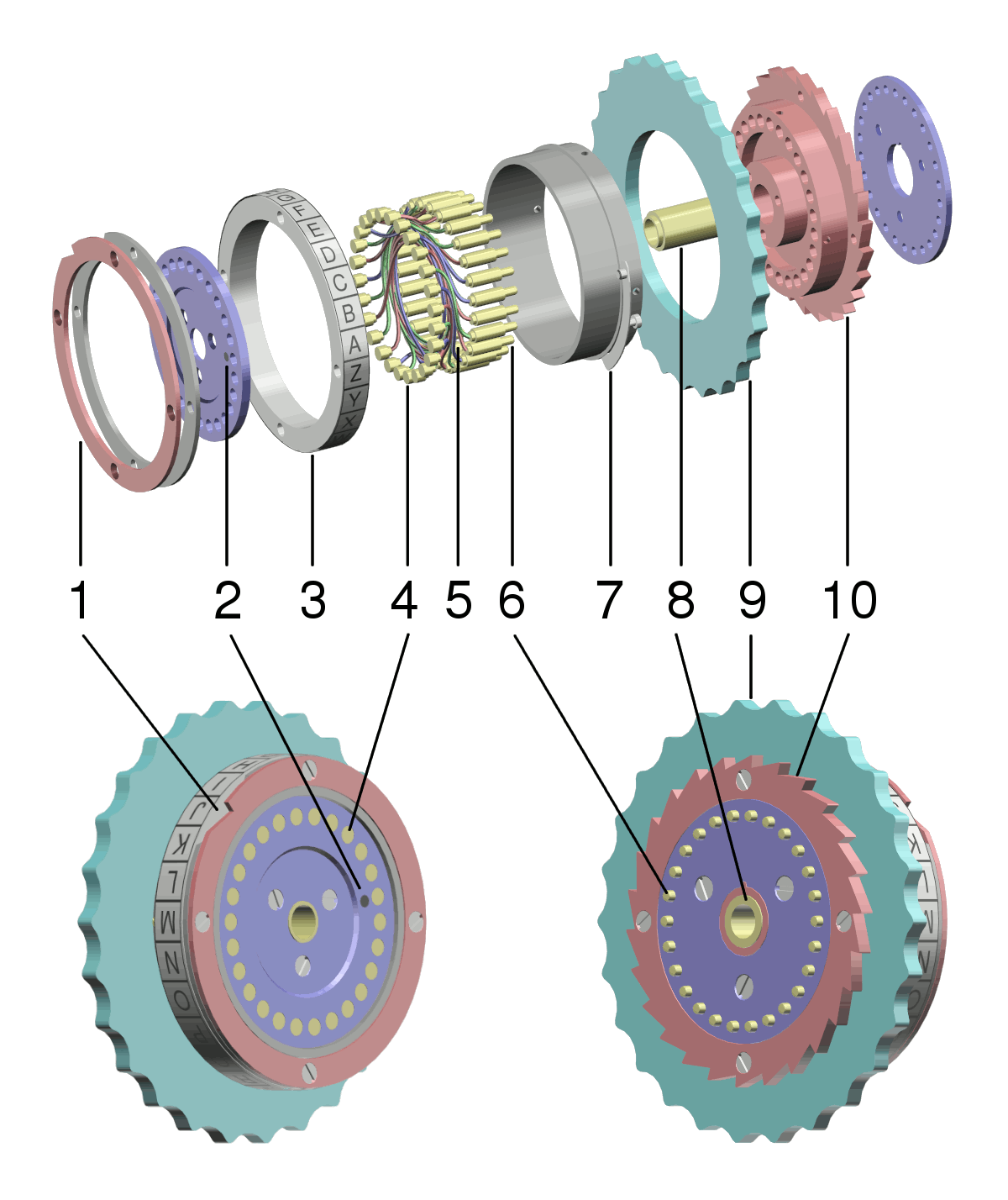 Exploded view of an Enigma machine rotor. Labeled components are as follows: Notched ring, used to "carry" the rotation of one rotor to another via a ratchet mechanism Dot marking the position of the "A" contact, for use by the operator in assembling the rotor Alphabet "tyre" or ring; some rings had a sequence of numerals instead of letters Electrical plate contacts Wire connections joining the plate contacts to the pin contacts Spring-loaded pin contacts Spring-loaded ring adjusting lever, used to alter the position of the alphabet ring; a pin on the lever fits into holes in the side of the alphabet ring Hub, through which fits the central axle Finger wheel, used to manually set the orientation of the rotor Ratchet mechanism